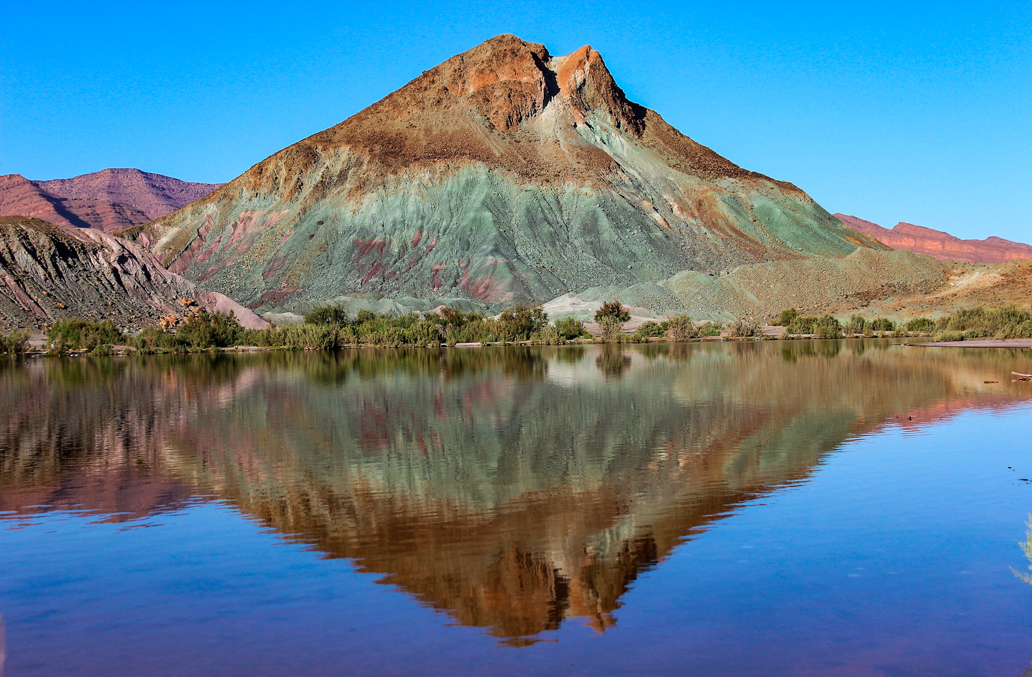 The pic was taken in Aïn Ouerka, Djbel Aïssa National park, Naama province, Algeria, it's a small lake that only fill with water for 2 months in a year, the pic is the reflection of that Amazing colored mountain on the lake, which makes a beautiful colored pic that describes a beautiful place.